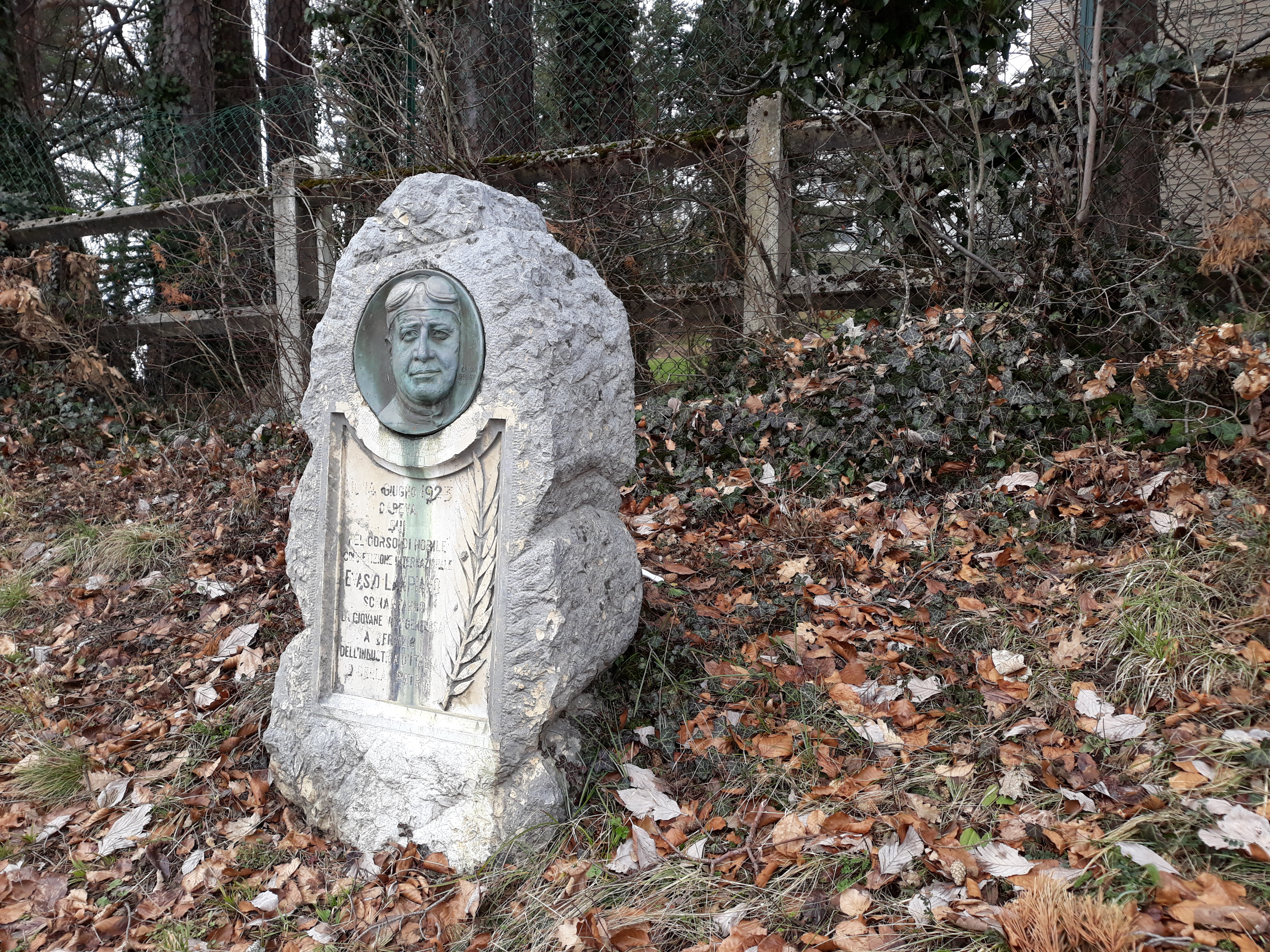 Cenotaph of Evasio Lampiano, Italian pilot on the side of French national road 5 in Gex, (Ain, France) currently known as "Paris street". The text says : "On June 14, 1923 fell here in the course of a noble international competition Evasio Lampiano crashing the generous young life at the service of the Italian industry and the country." the bronze portait is signed Ercole Reduzzi (1924)